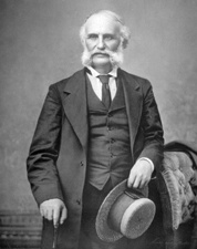 Portrait of Robert Crozier, Senator from Kansas and Chief Justice of the Kansas Supreme Court.